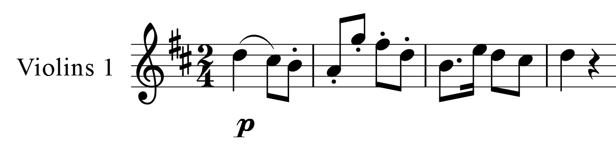 Joseph Haydn, Symphony No. 14, second movement, bar 1-4